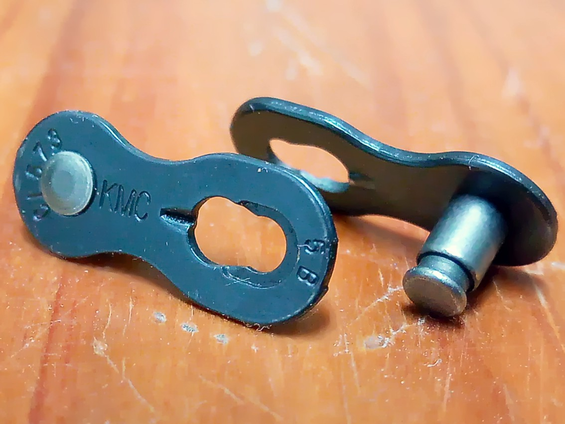 Master link for bicycle chain, with slotted type with interlocking